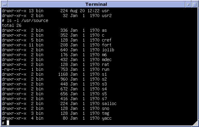 Version 6 Unix for the PDP-11, running in the SIMH PDP-11 simulator. Browsing through "/usr/source", where the Unix source code is located.